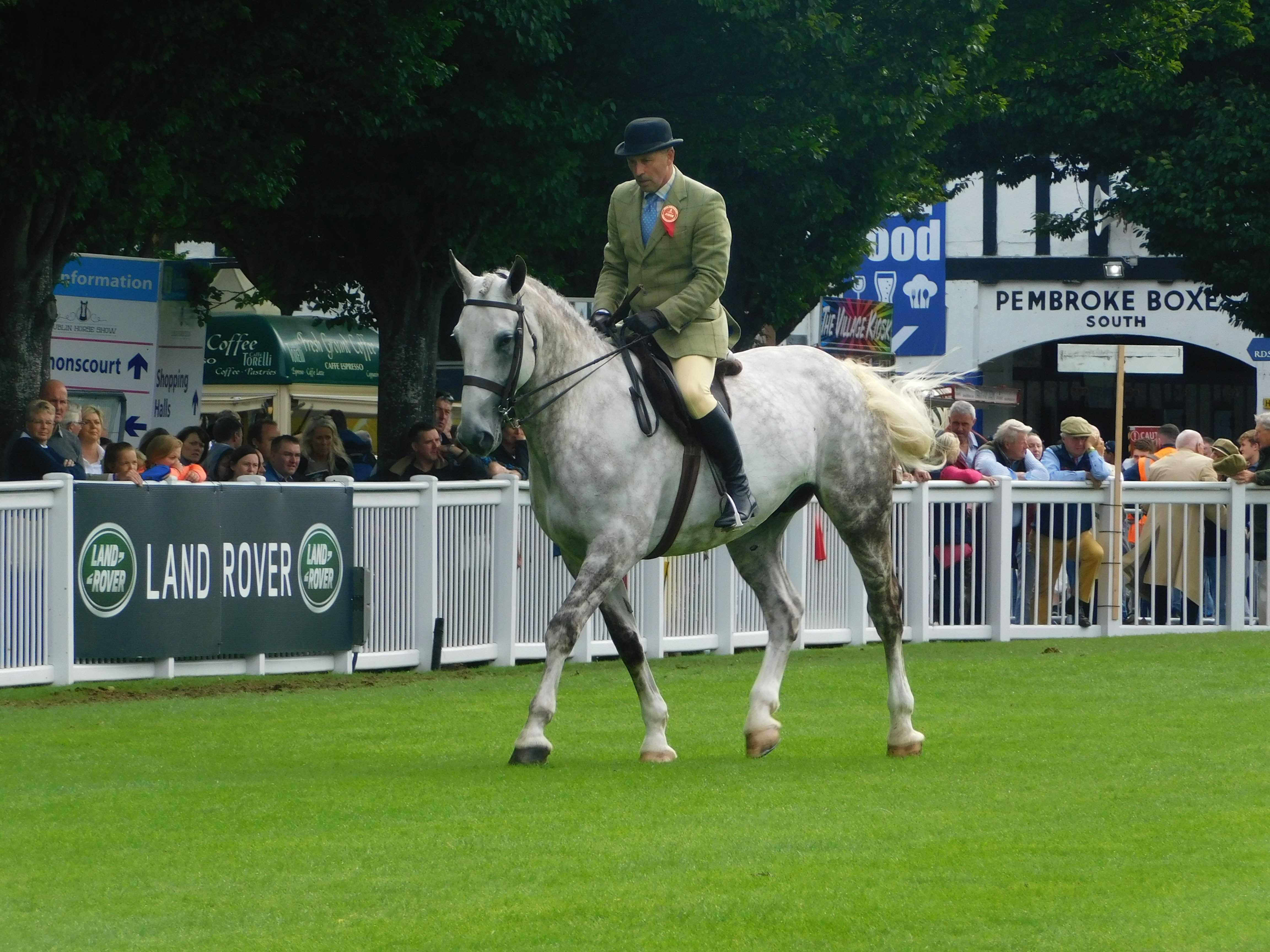 Dublin Horse Show 2017, Class 12 Heavyweight Hunter - Rockrimon Diamond Surprise [IHR 5347865] (Irish Draught Horse). Sire: Gentle Diamond, Dam: Killenana View, Damsire: Corrabawn View.